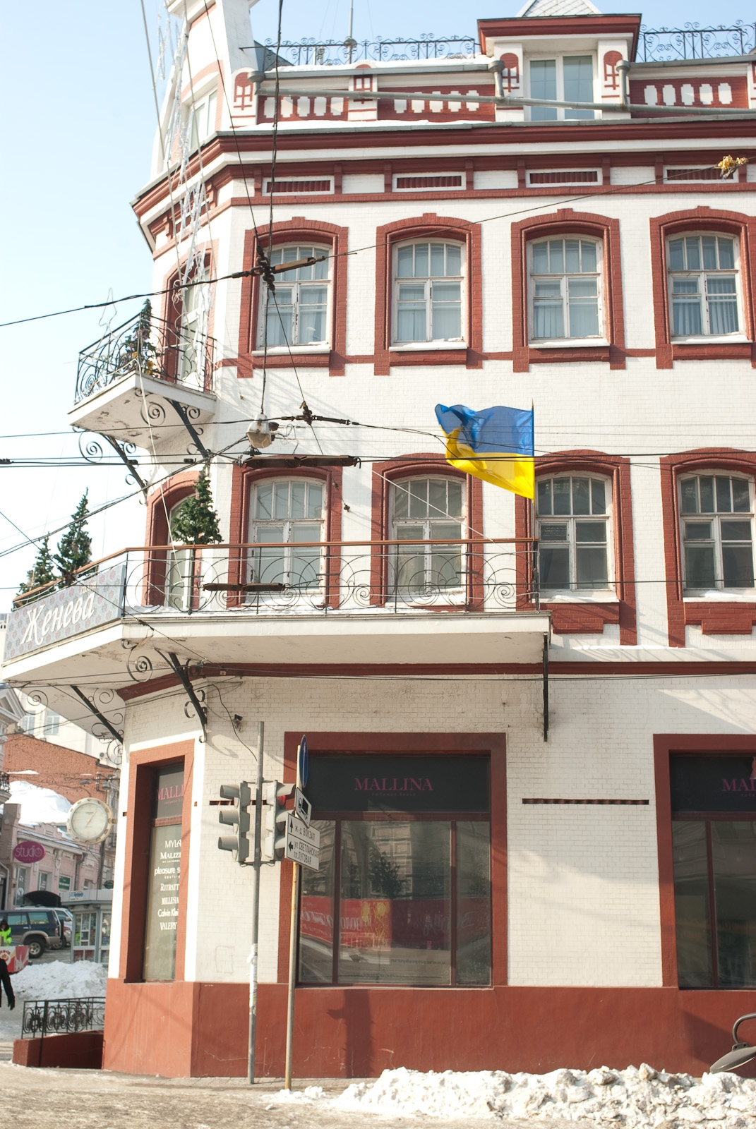 Consulate-General of Ukraine in Vladivostok